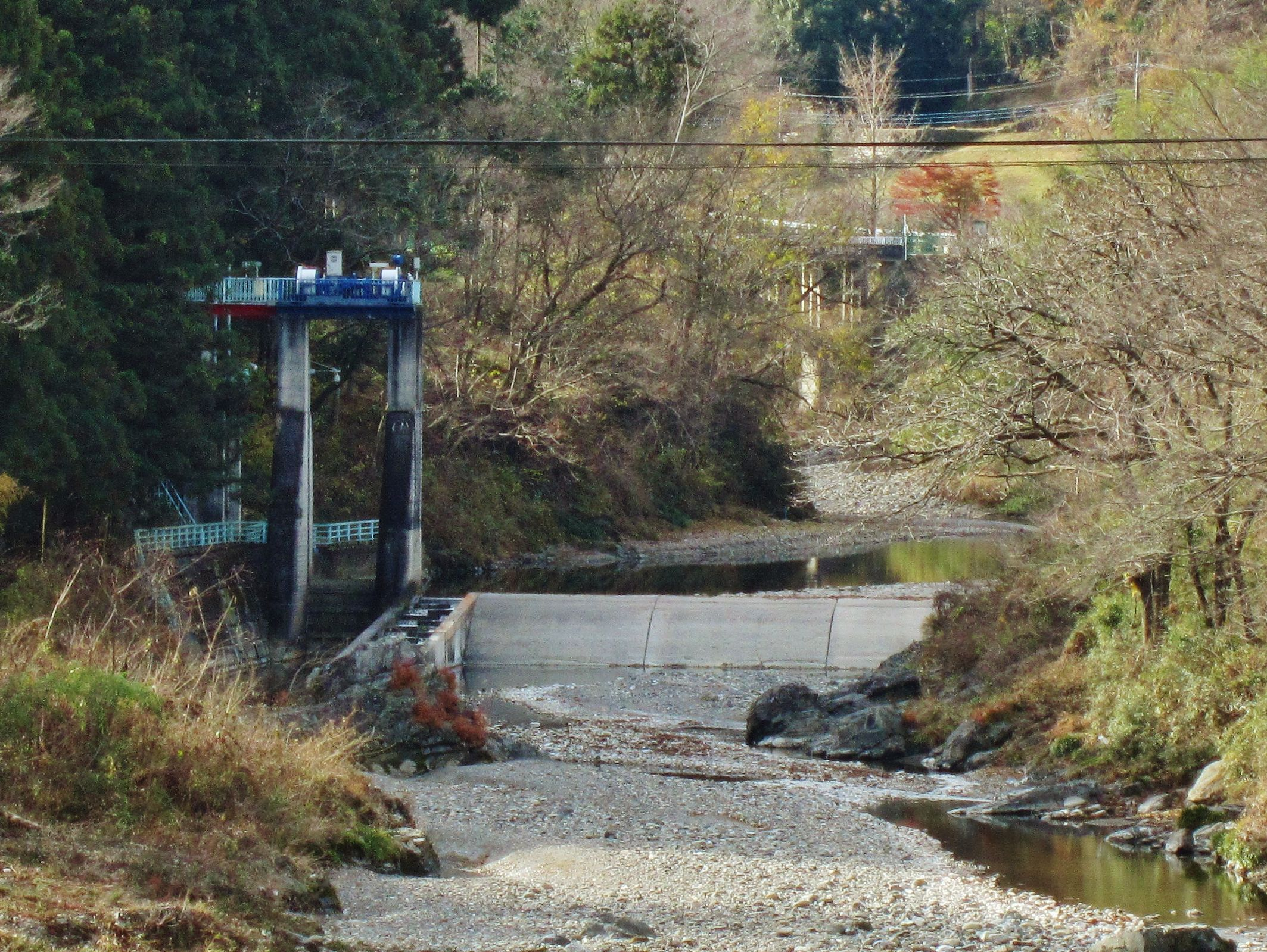 Nanmoku head works.